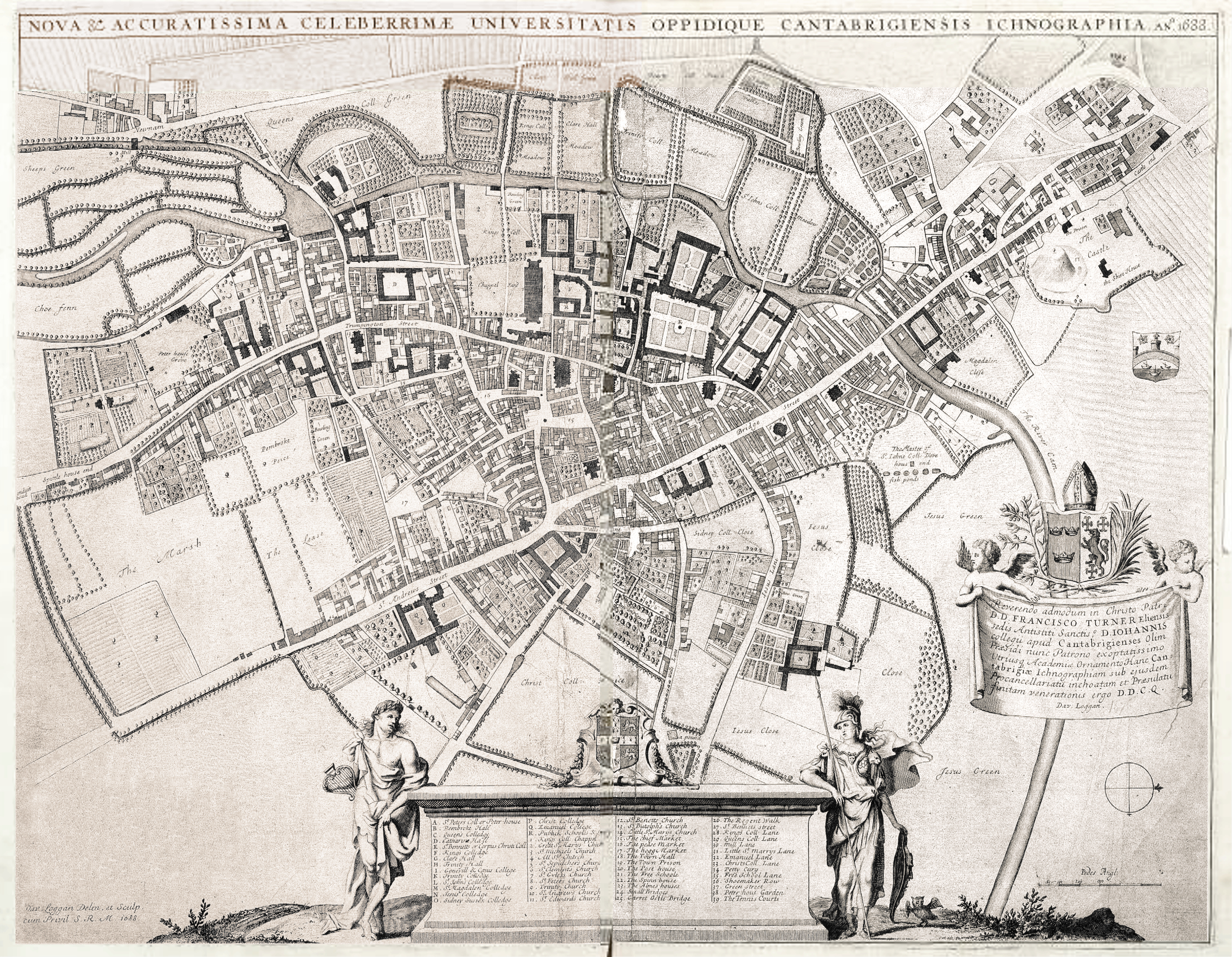 Map of Cambridge by David Loggan. Dated 1688, published 1690.